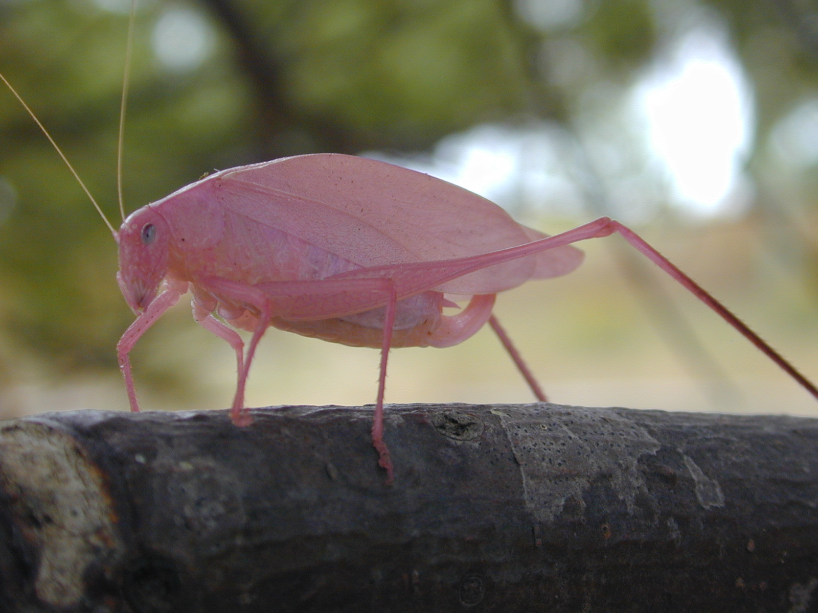 A pink katydid at Rondeau Provincial Park, Ontario, Canada. Usually they are green, this is an instance of erythrism.